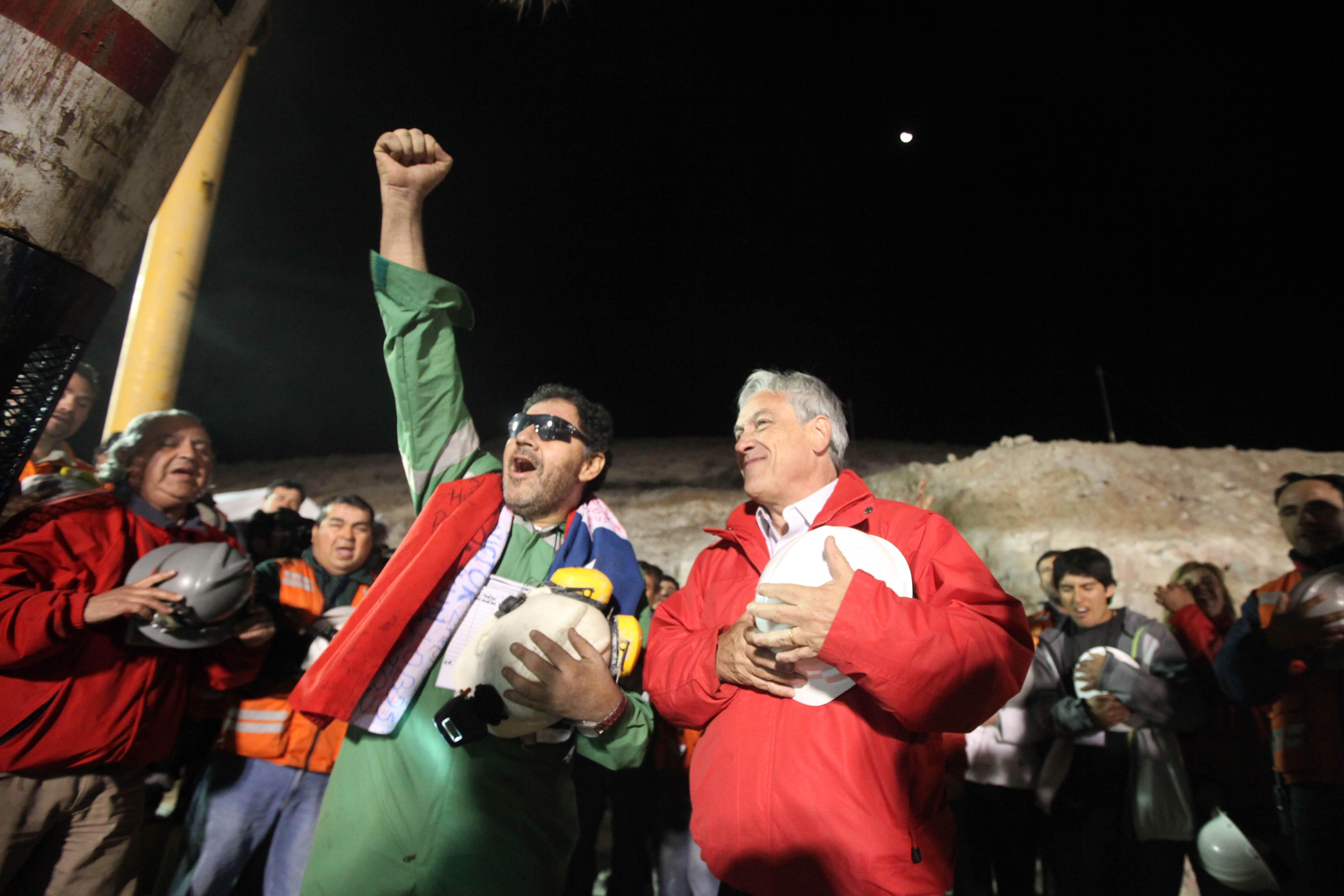 Luis Urzúa, the leader of the trapped miners and the last to be lifted to freedom, celebrates with President Piñera at San Jose Mine near Copiapo, Chile.